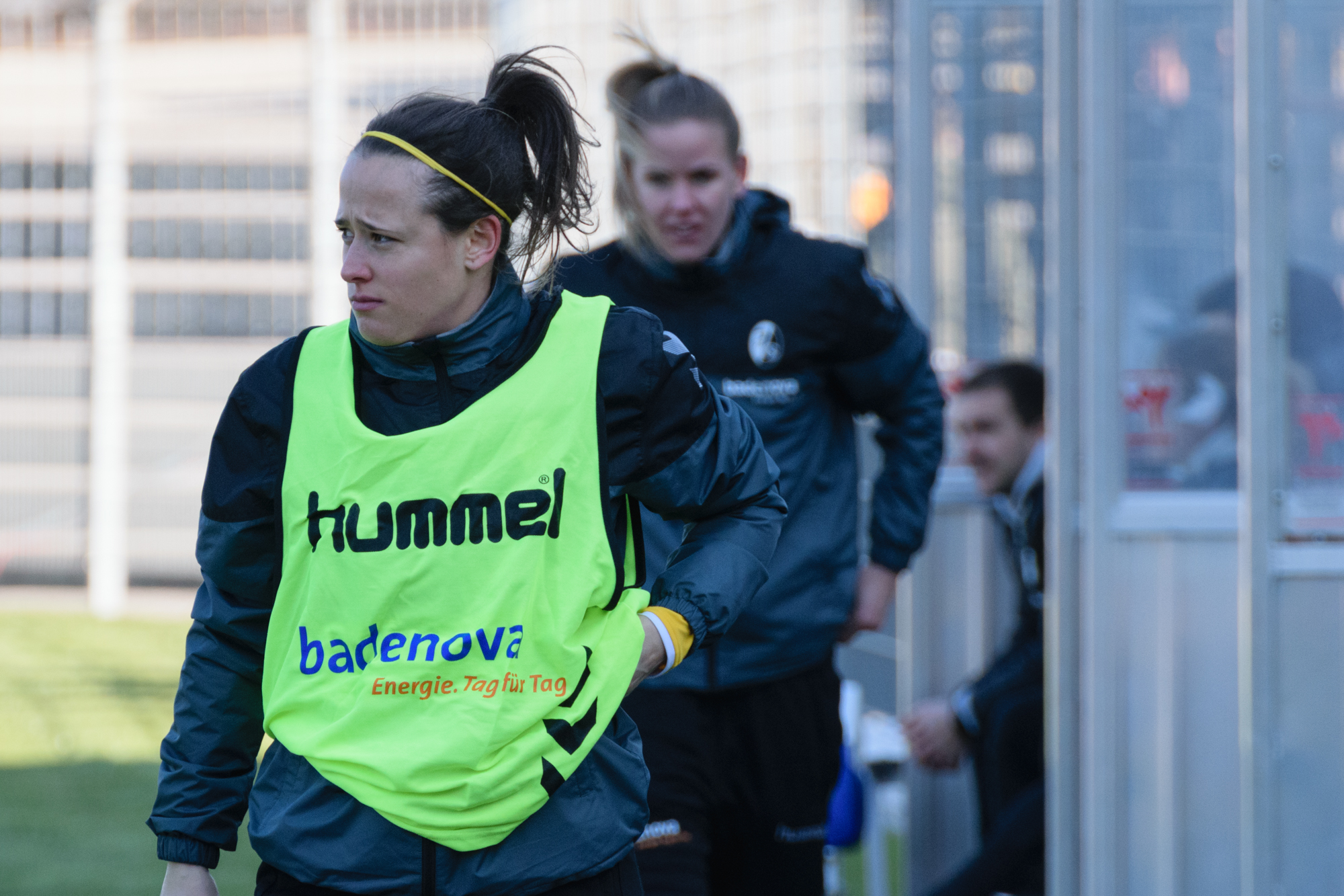 Maria Korenčiová warming during SC Freiburg (women) vs FC Bayern (women), February 2018